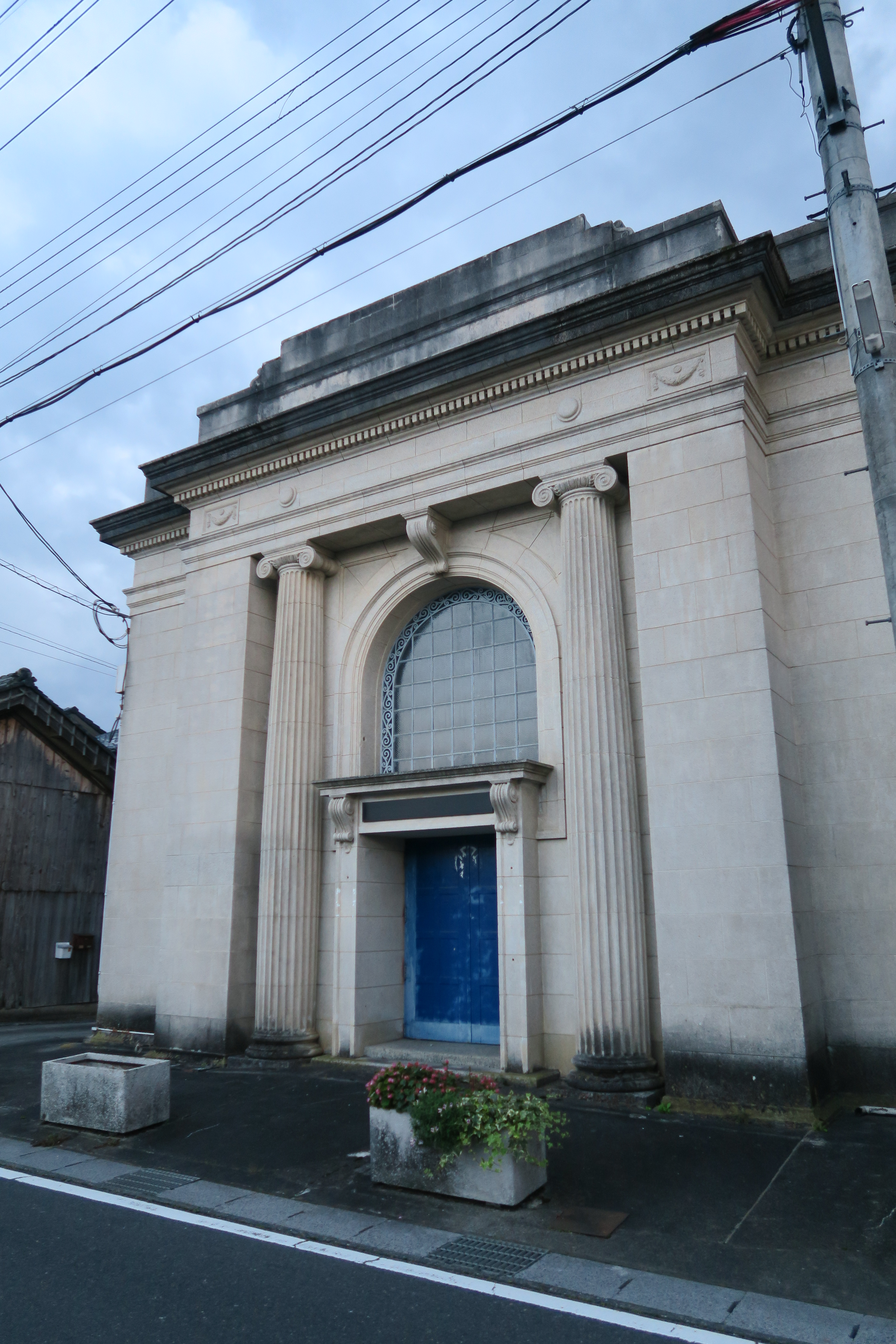 Former Shiga bank Kōnan branch, Koka, Shiga, Japan